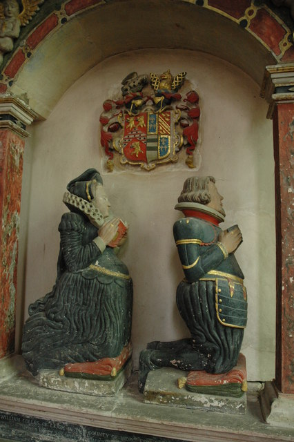 St Edburgha's church, Leigh, monument of Edmond Colles (1530-1606), first lord of the manor after the dissolution of the monasteries. 12 children at the base. Arms of Colles: Gules, a cheveron argent barry of nine pelletée and gules between three lion's heads erased or